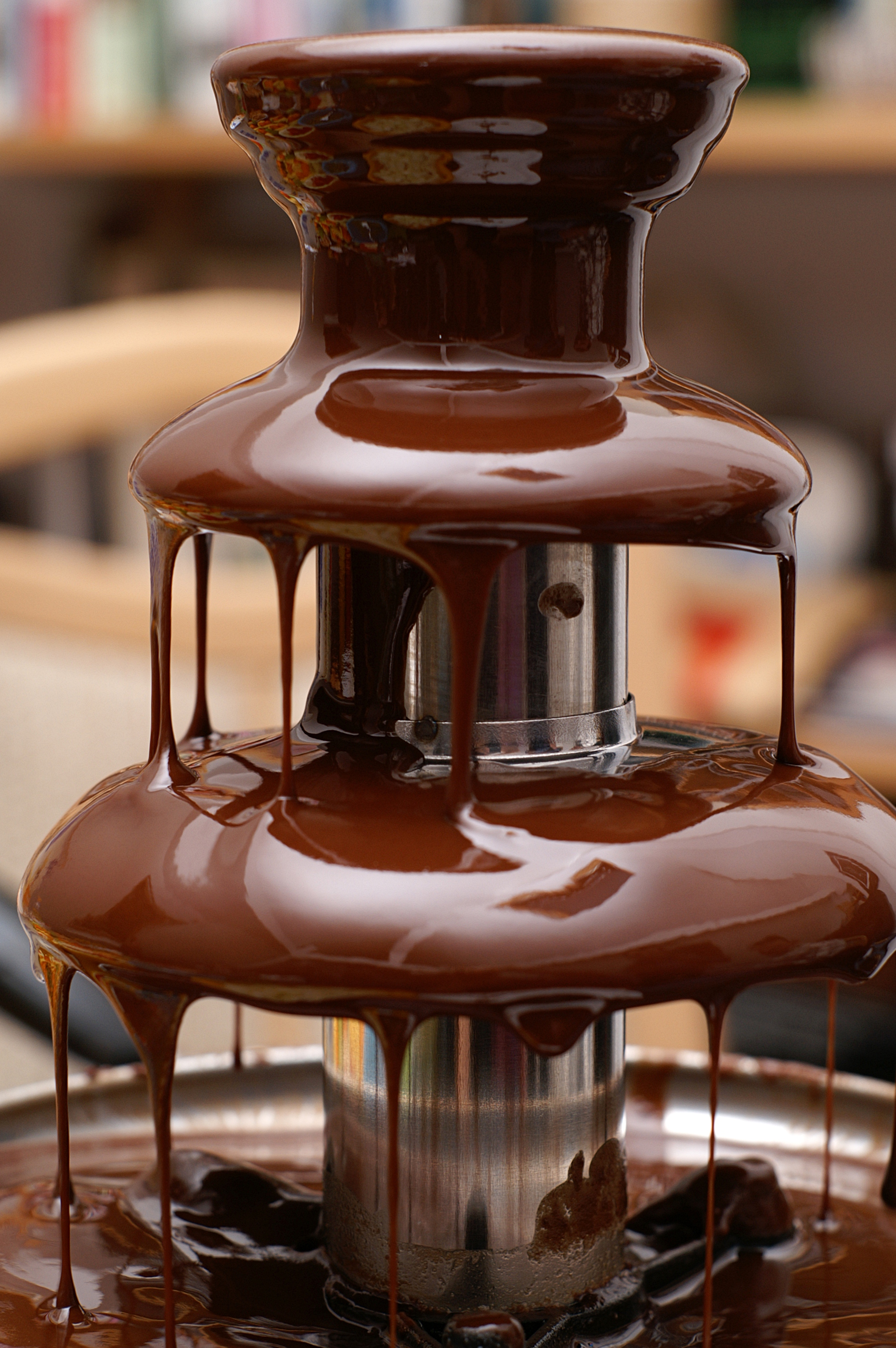 Small chocolate fountain